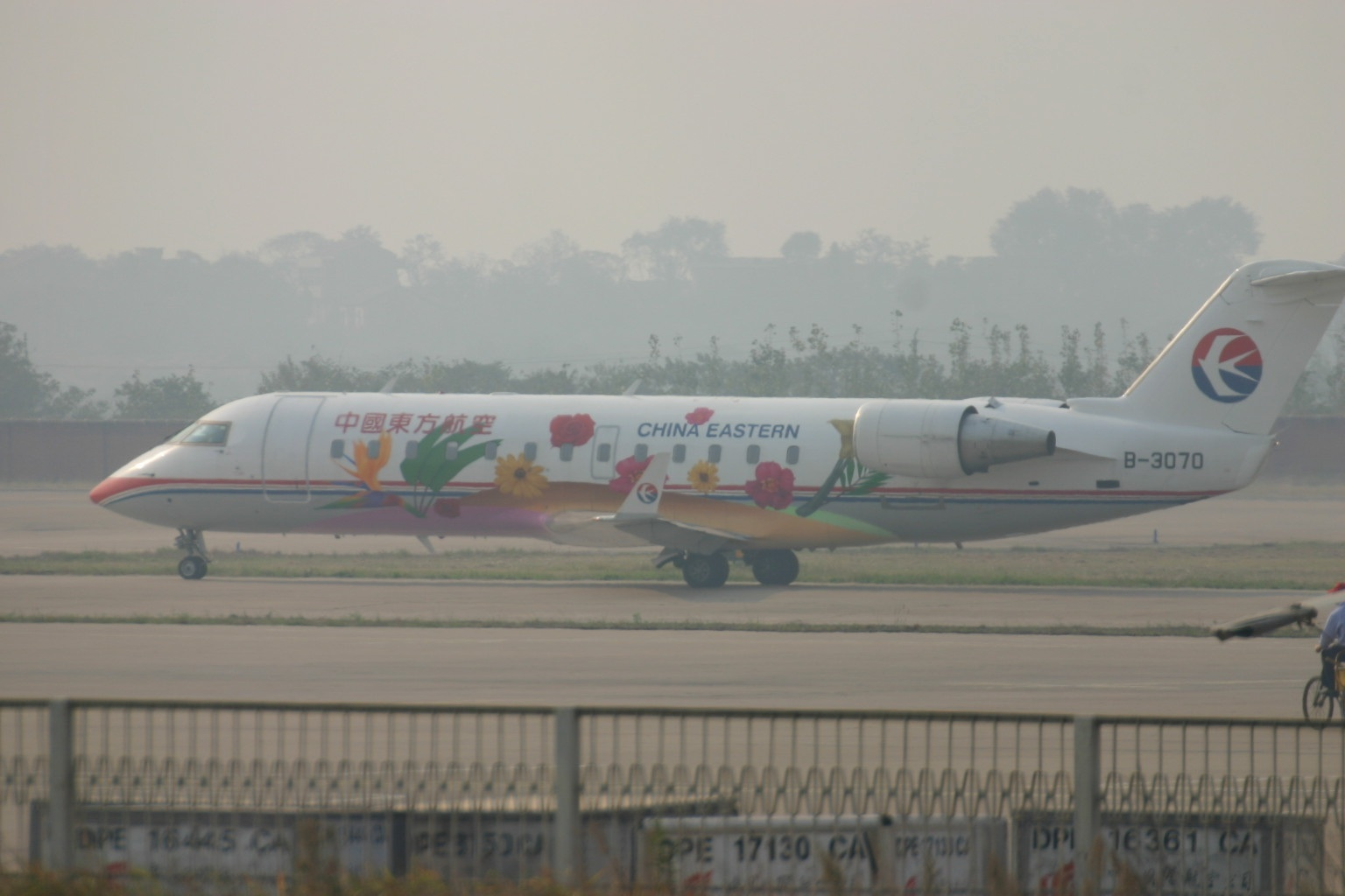 At Wuhan